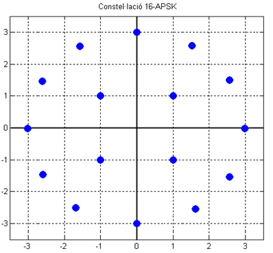 Const 16APSK